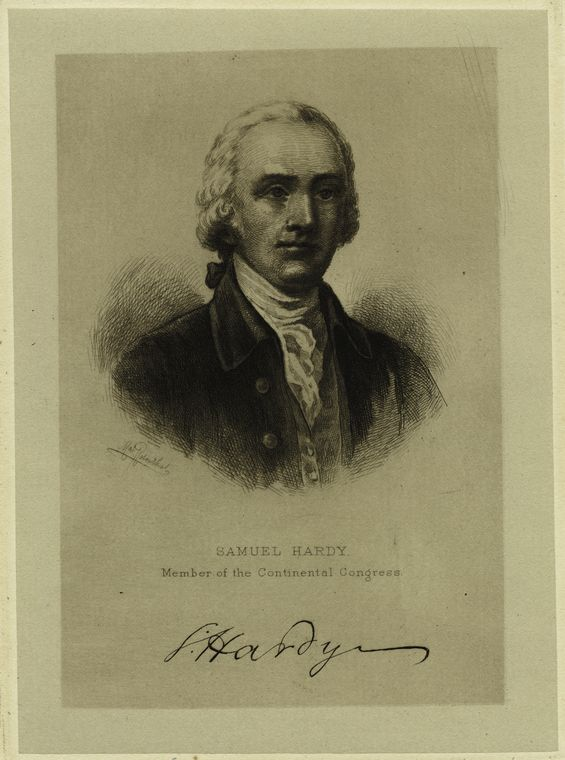 Taken from - due to its age it's in the public domain